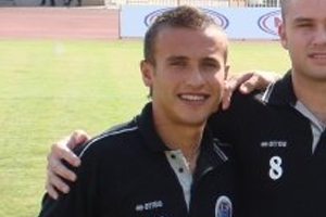 Picture of Andrew Cohen.